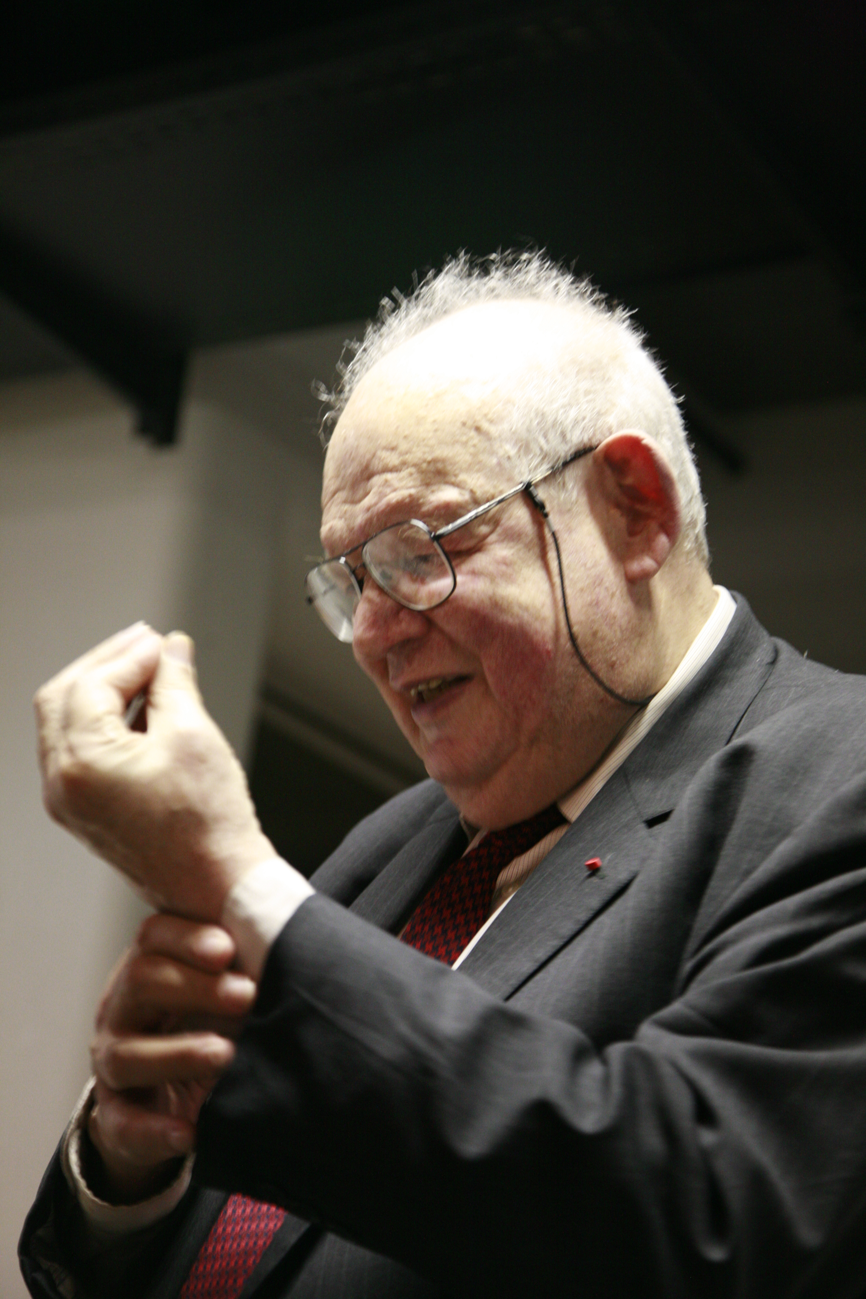 Benoît Mandelbrot at the EPFL, on the 14h of March 2007